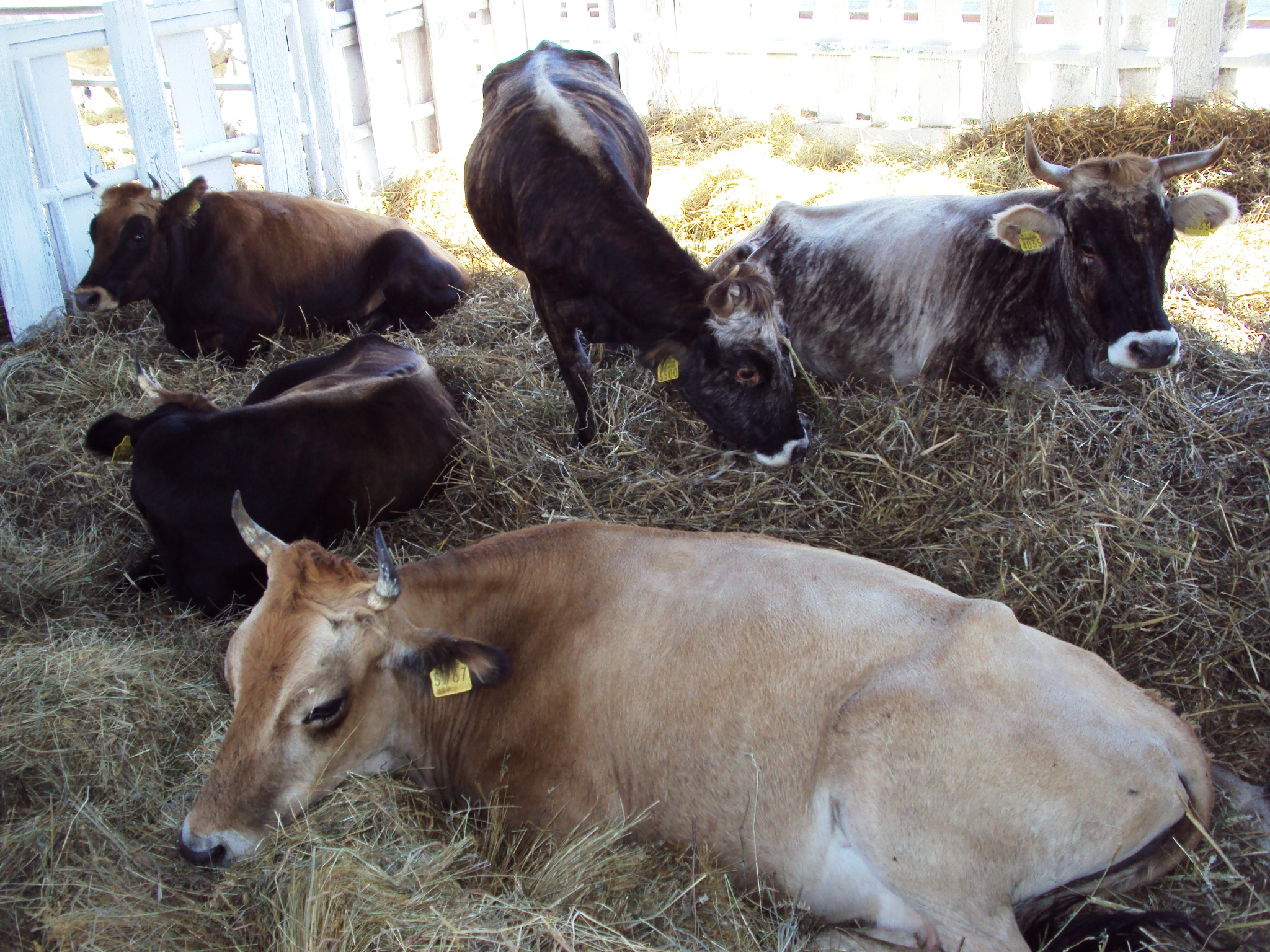 Croatian breed of cattle: Buša - Agriculture Fair in Bjelovar, Croatia